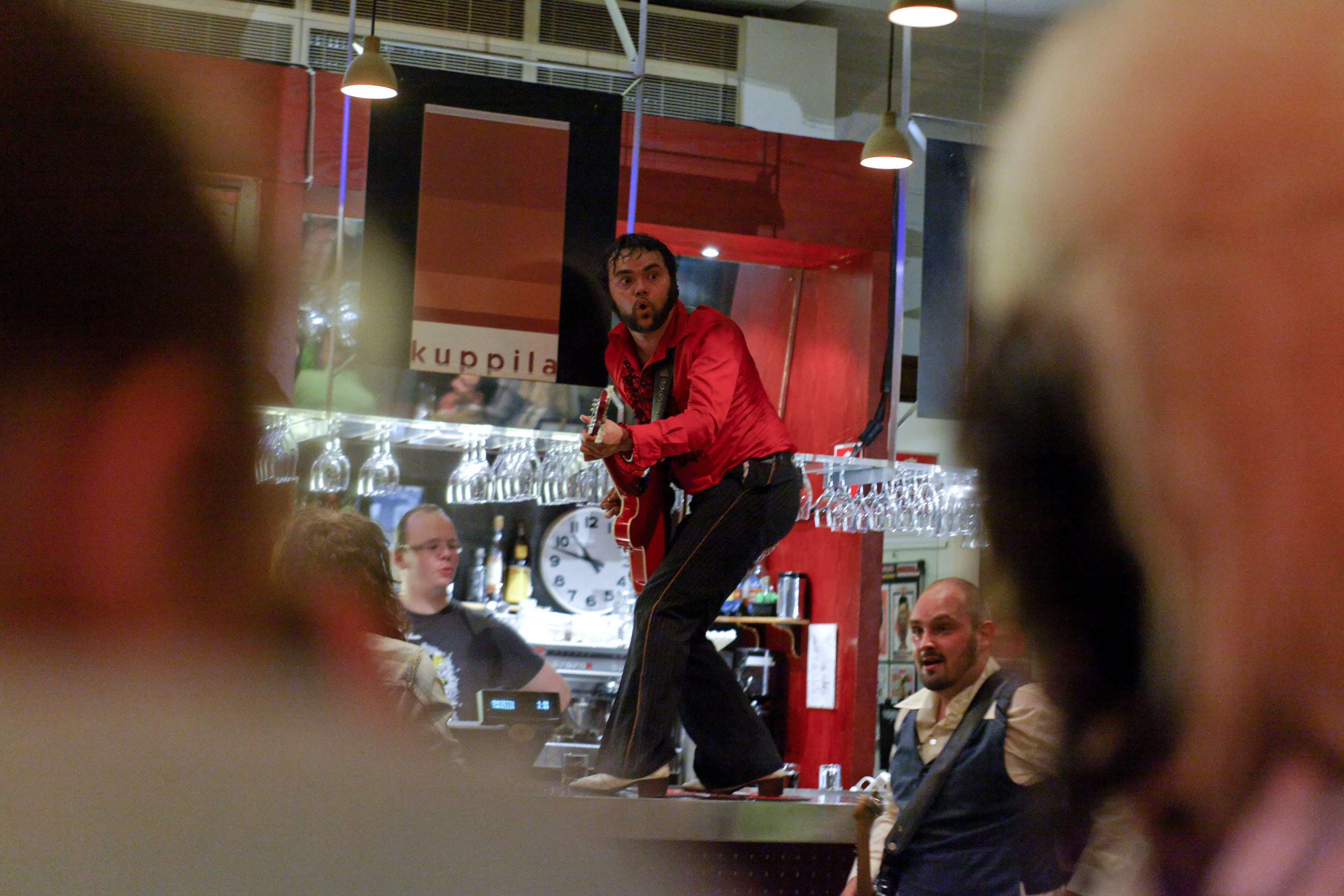 Knucklebone Oscar at Art goes Kapakka 2010. Picture Heini Lehväslaiho.